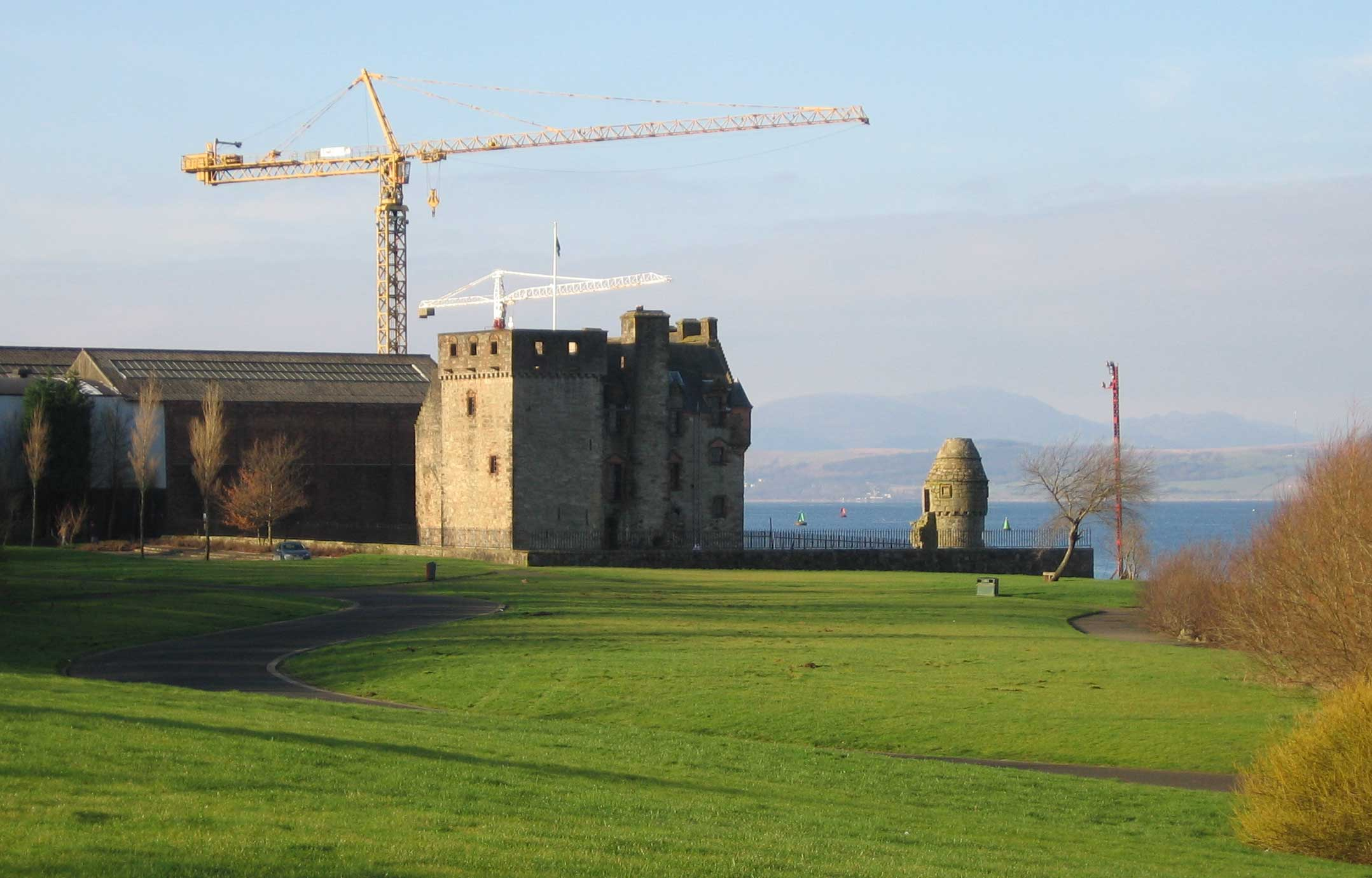 Newark Castle, Port Glasgow. photograph taken in January 2006 by User:Dave souza. Any re-use to contain this licence notice and to attribute the work to User:Dave souza at Wikipedia.